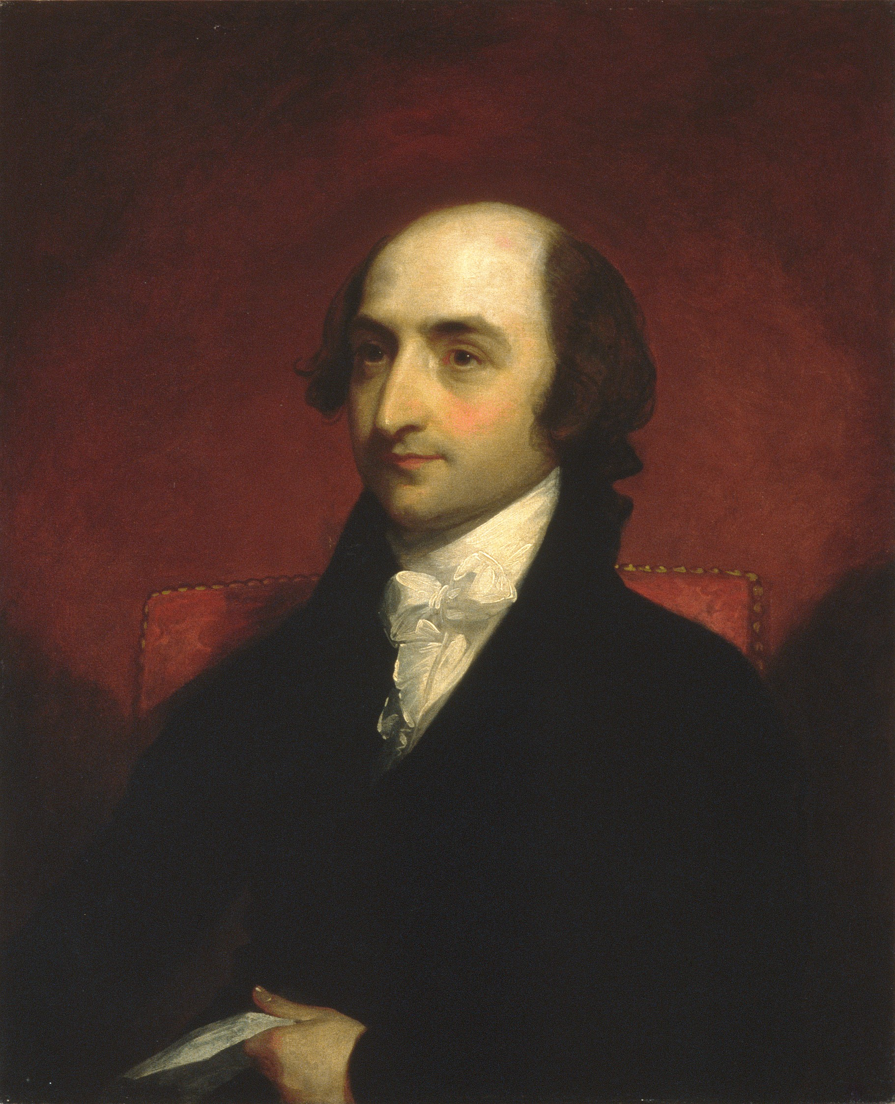 Albert Gallatin Artist: Gilbert Stuart (American, North Kingston, Rhode Island 1755–1828 Boston, Massachusetts) Date: ca. 1803 Medium: Oil on canvas Dimensions: 29 3/8 x 24 7/8 in. (74.6 x 63.2 cm) Classification: Paintings Credit Line: Gift of Frederic W. Stevens, 1908